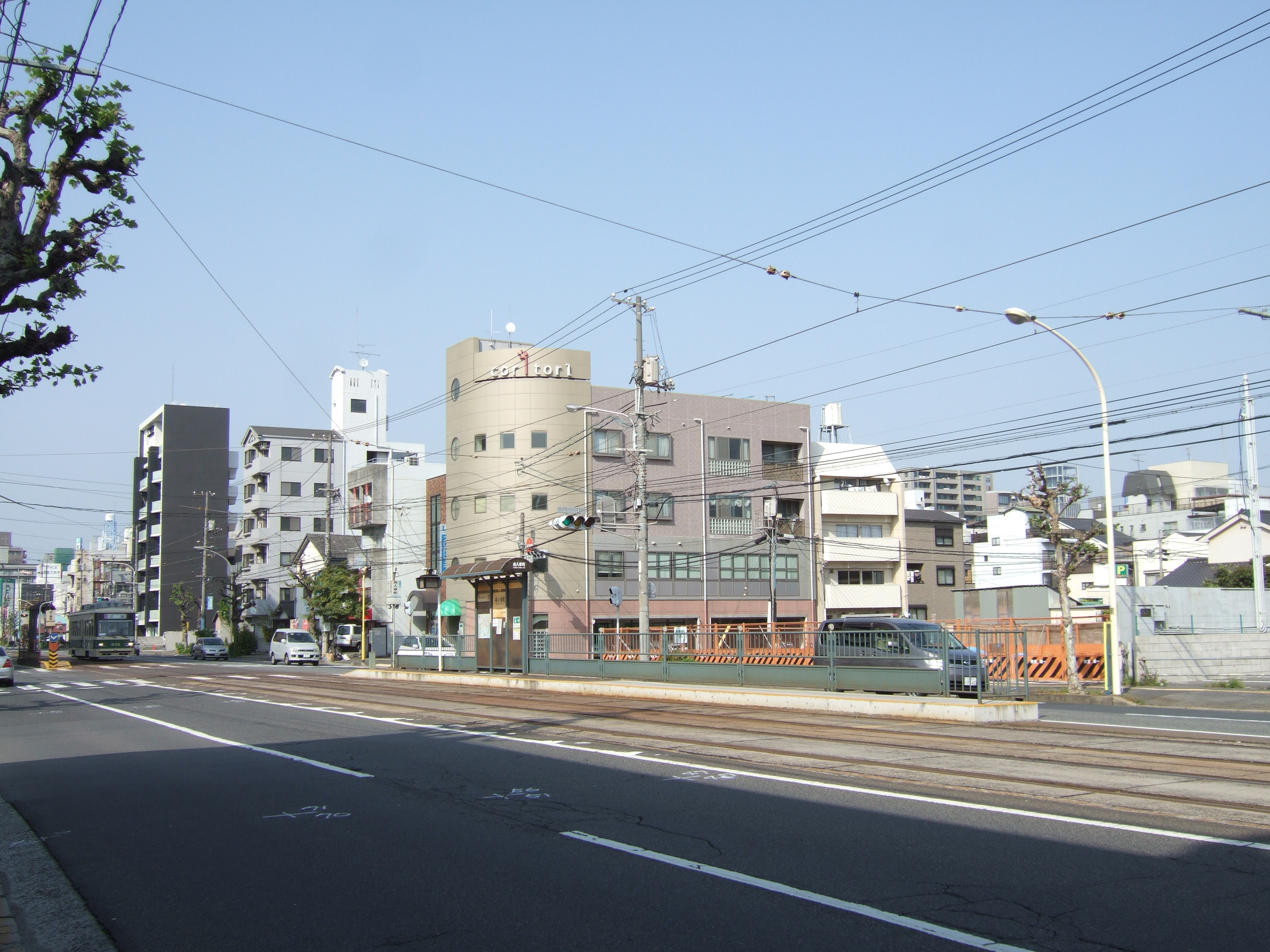 Funairi-Saiwaicho Tram Stop Platform for Eba on Hiroshima Electric Railway Eba Line